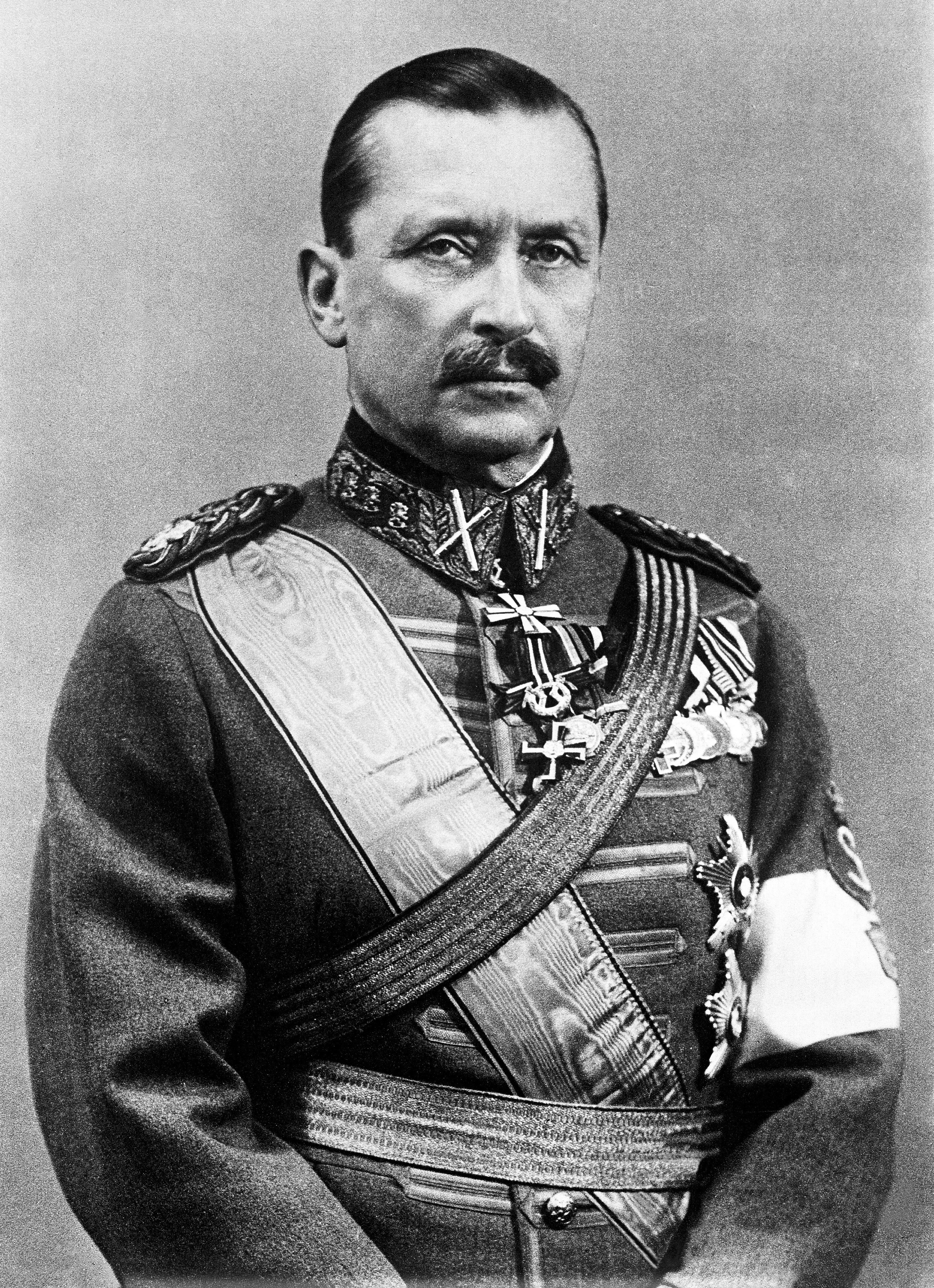 Field Marshal C.G.E. Mannerheim